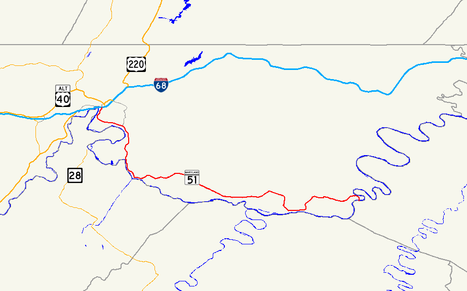 Map of Maryland Route 51